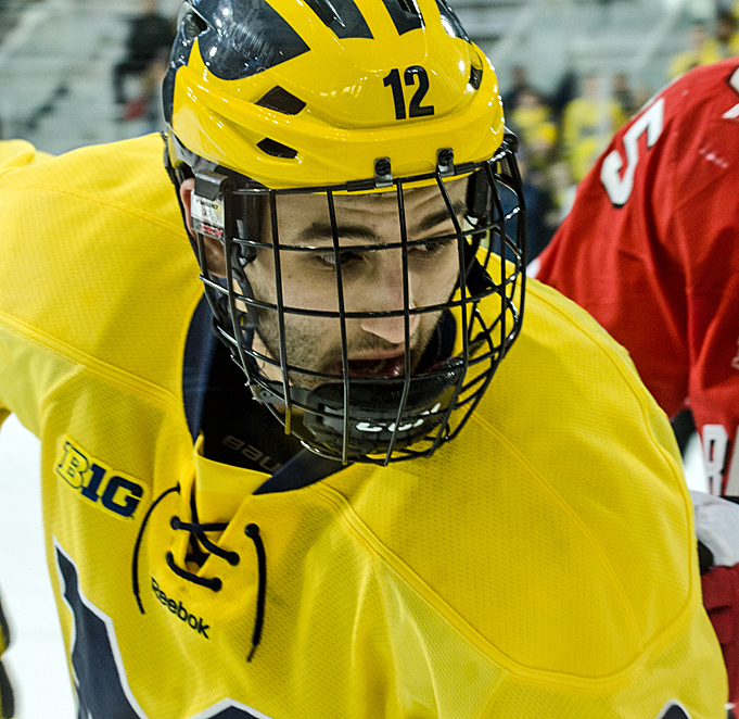 Michigan vs Ohio State, Feb. 22, 2015